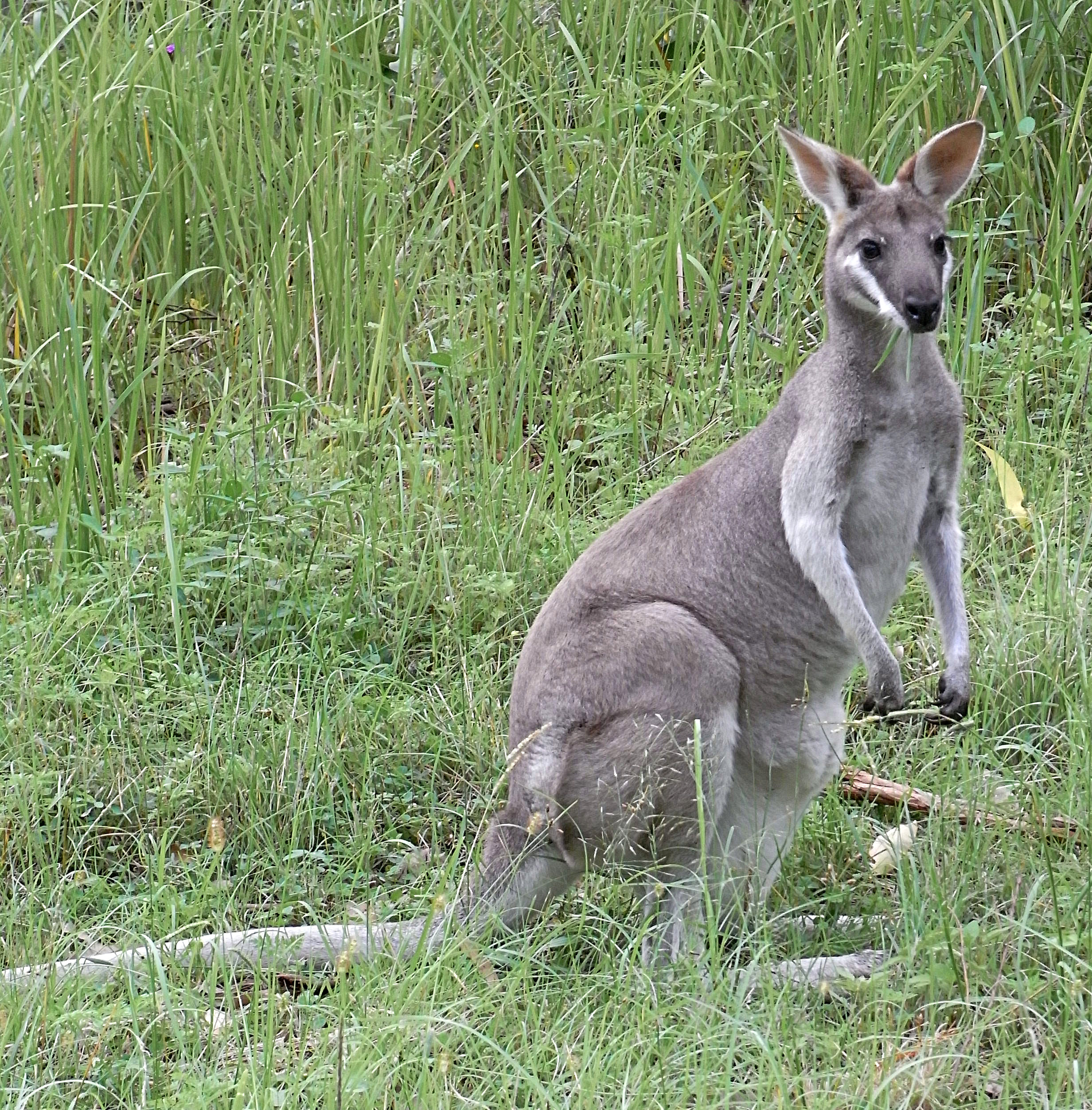 Wild Whiptail Wallaby/Pretty-Faced Wallaby (Macropus parryi) at the road from Canungra to Lamington National Park, Queensland, Australia.